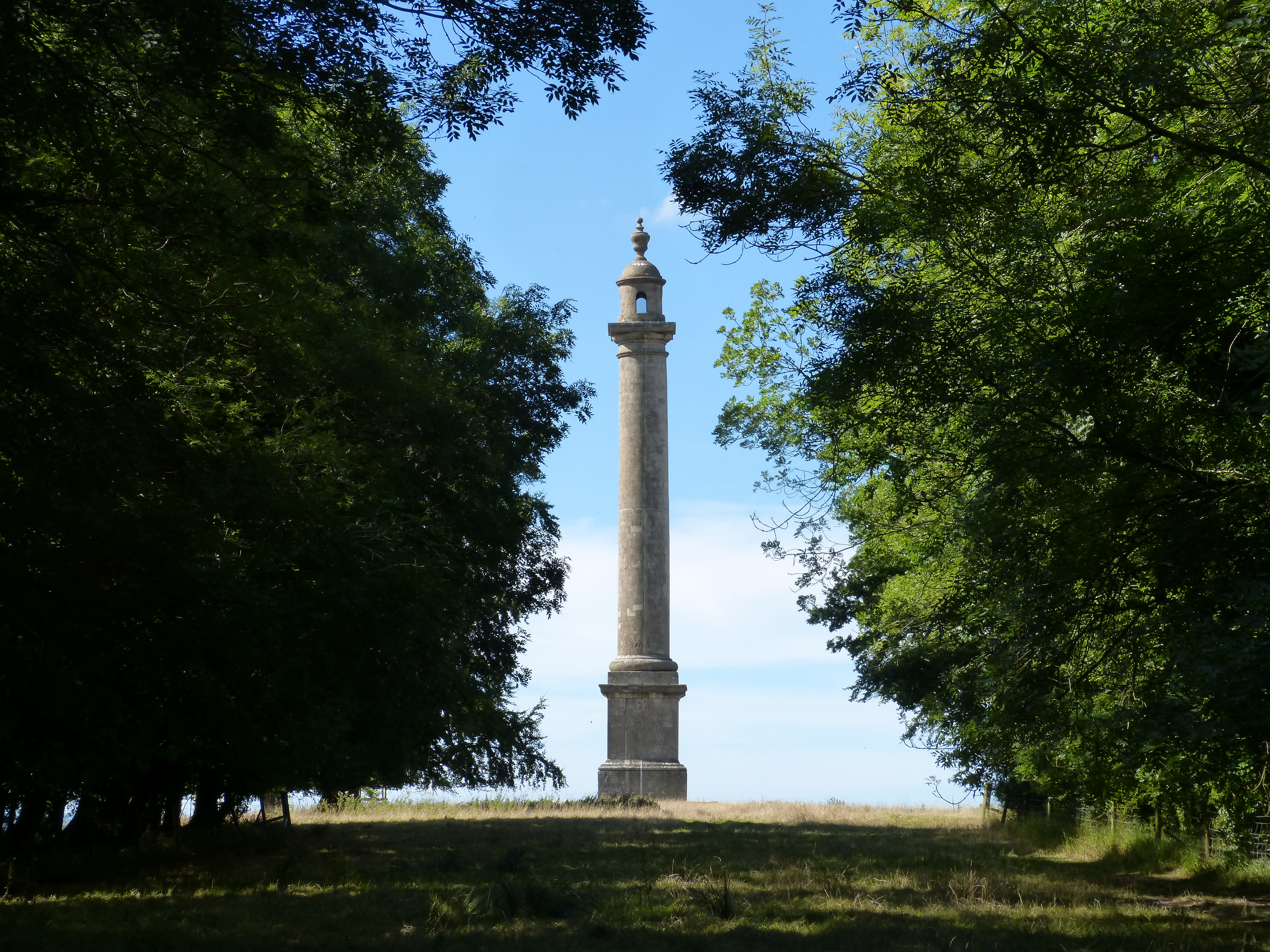 Burton Pynsent Monument Wikidata has entry Q5000900 with data related to this item.